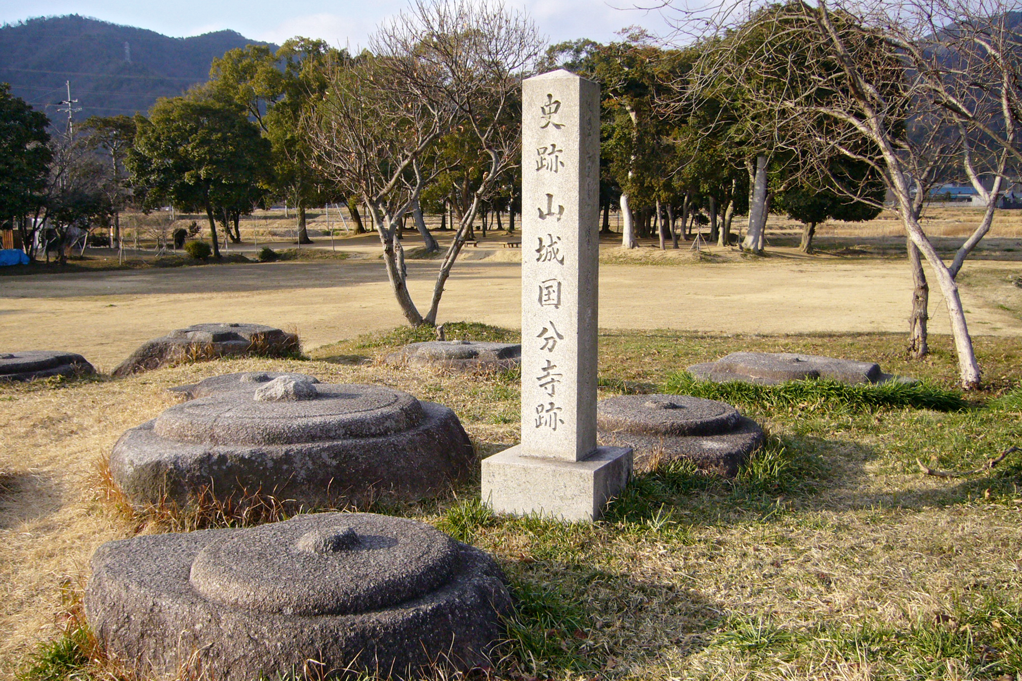 Kuni-kyō (Yamashirokokubunji) ruins in Kizugawa, Kyoto prefecture, Japan